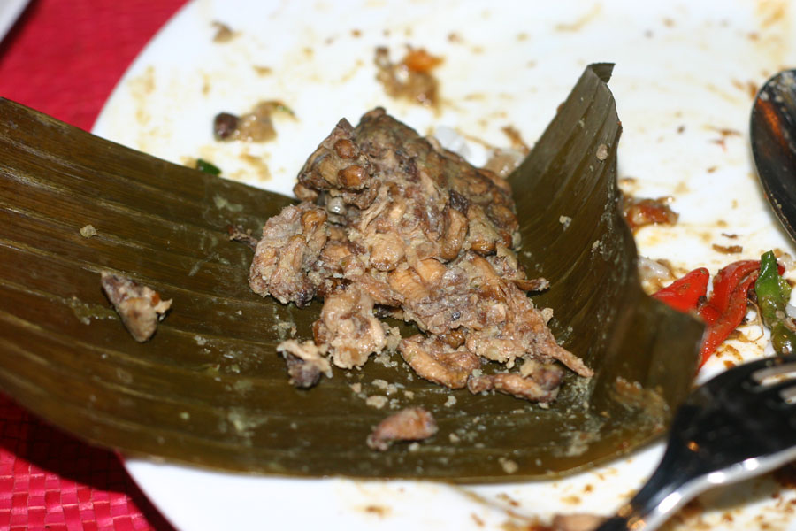 Botok Tawon, a traditional East Javanese dish made from bee larvaes cooked in coconut milk